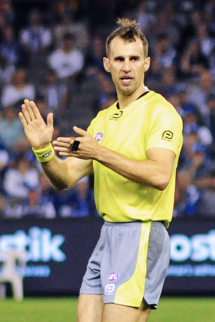 Jeff Dalgleish during the AFL round five match between North Melbourne and Hawthorn on Sunday, 22 April 2018 at Etihad Stadium in Melbourne, Victoria.